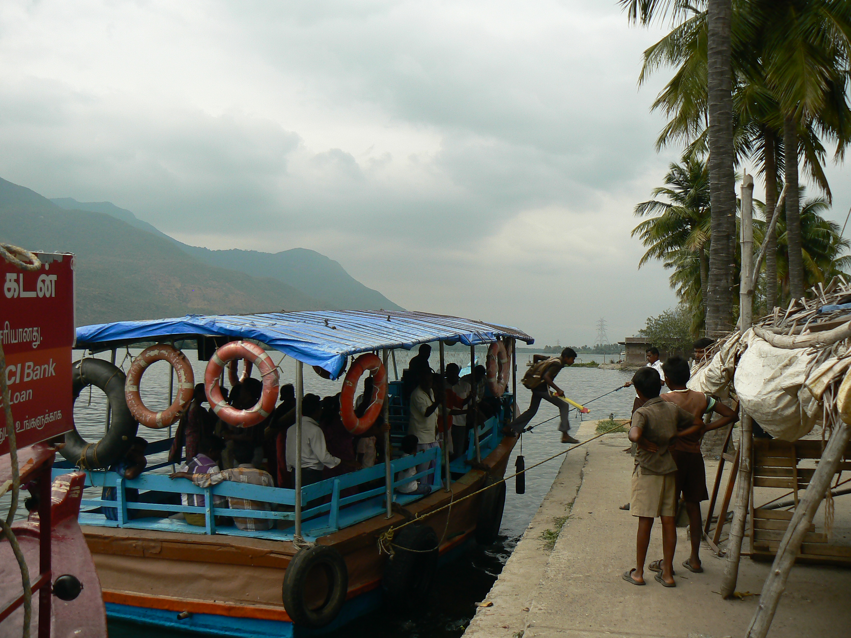 Ferry service across Cauvery to and from Poolampatti